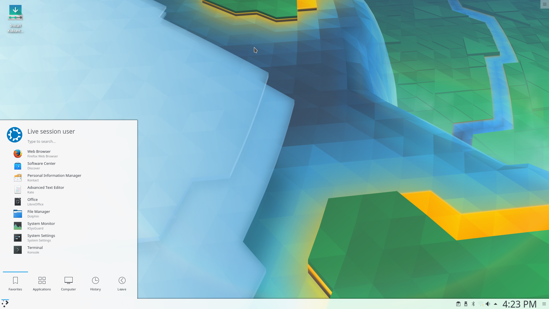 Kubuntu 17.10